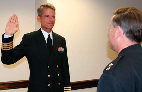 RADM Bruce MacDonald swears in CAPT John Rolph as Deputy Chief Judge of CMCR.